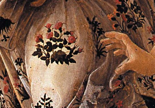 Detail of Flora's skirt from La Primavera showing evidence of a new theory about the Pagan Renaissance Revival